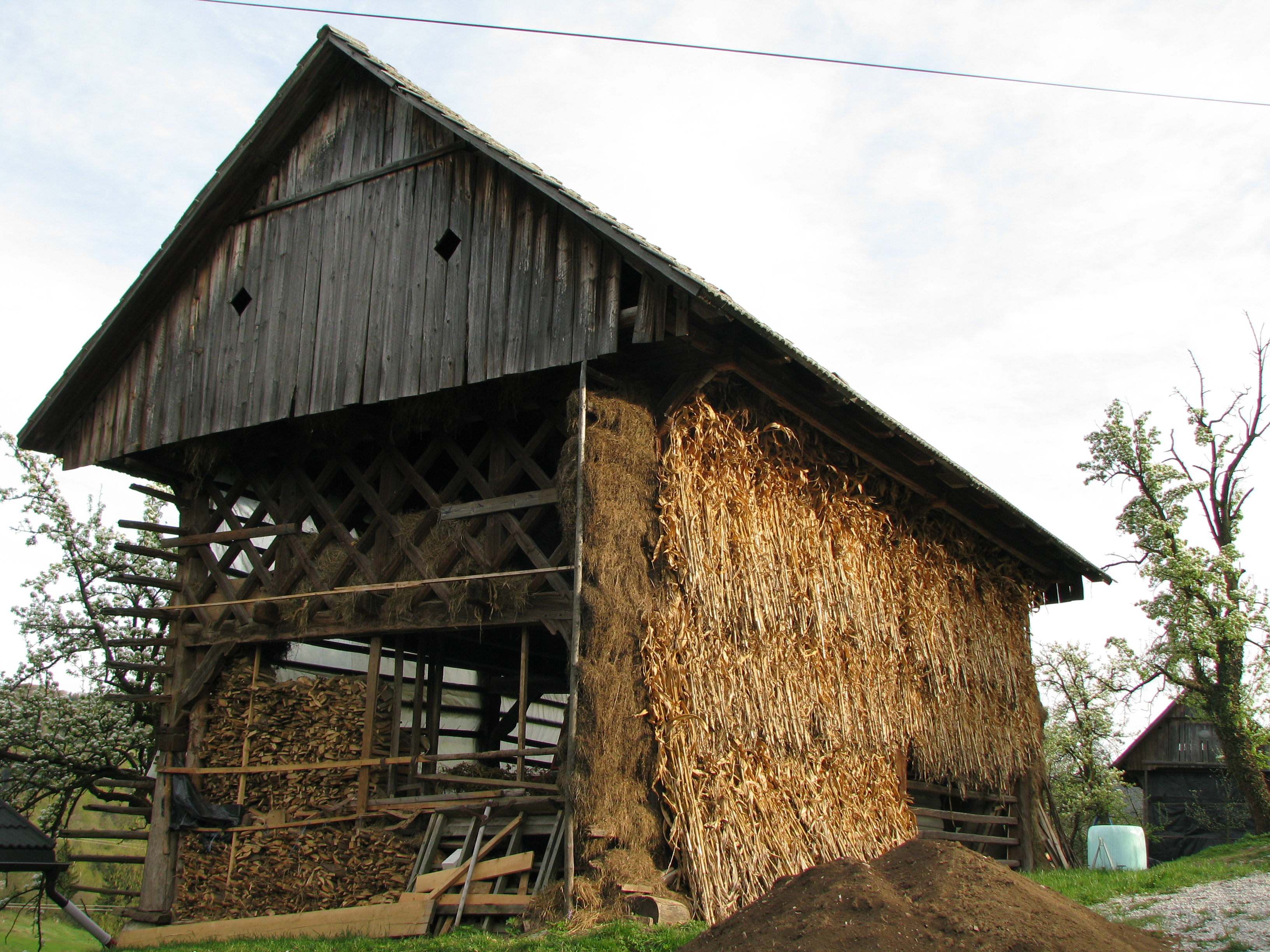 Hayrack in the village of Kovk, Hrastnik municipality, Slovenia.